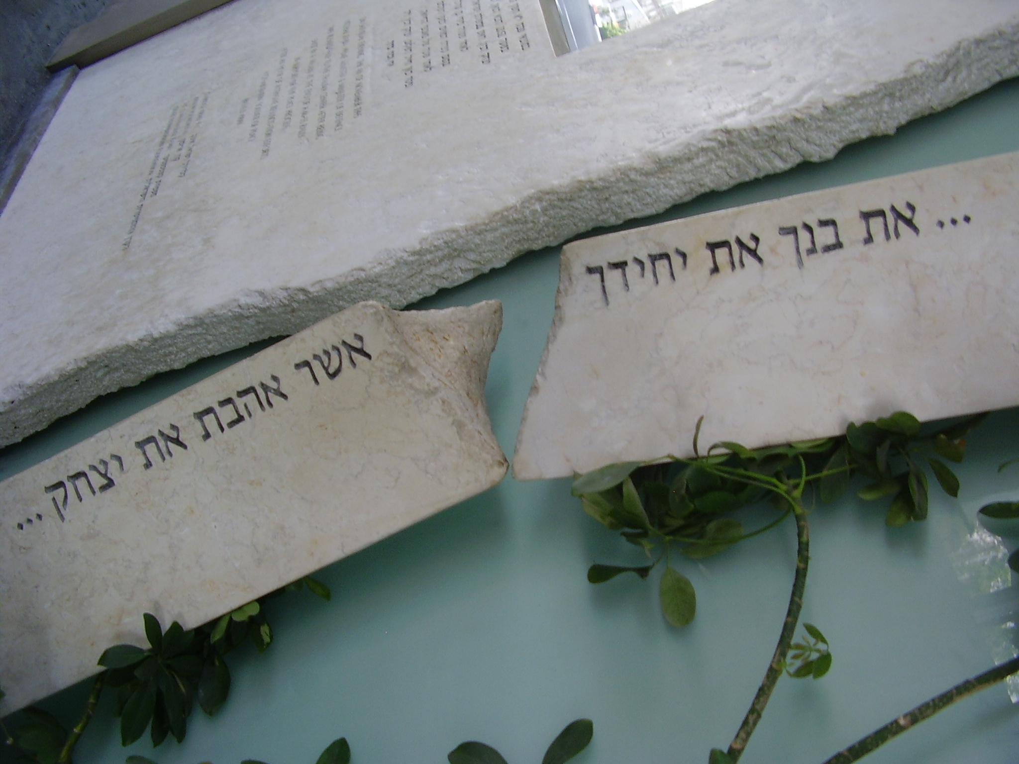 yizhak rabin memorial plate in tel aviv medical center